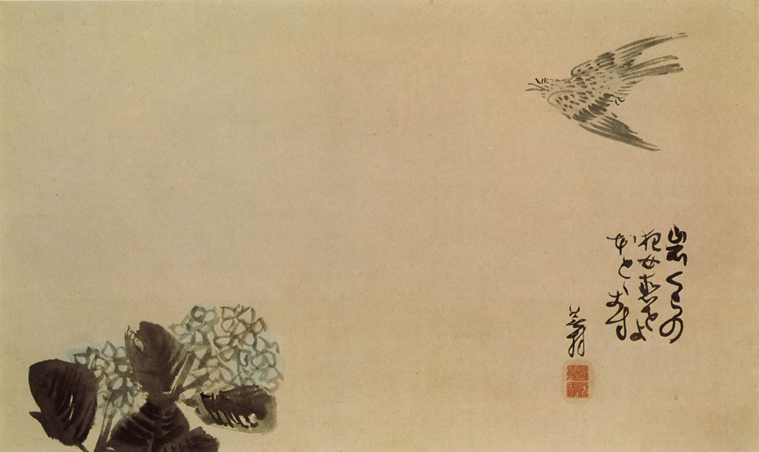 A_little_cuckoo_across_a_hydrangea(Haiga) ほととぎす自画賛 紙本墨画 inscribed lower right: 蕪村 (Buson) marked lower right: 「謝長庚」「春星氏」 inscribed lower right: 岩くらの狂女恋せよほとときす